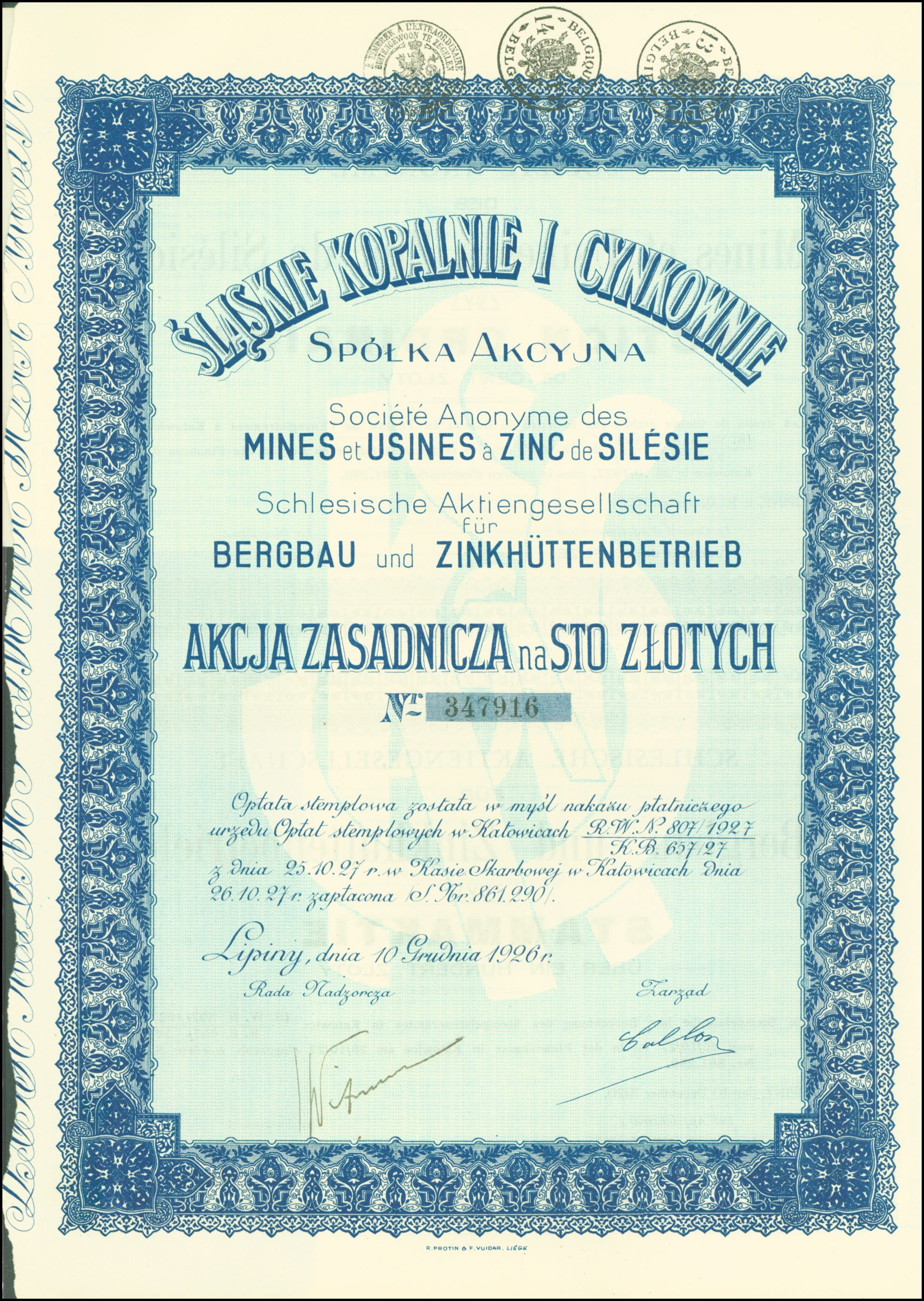 Share of the Slaskie Kopalnie i Cynkownie SA, issued 10. December 1926